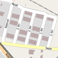 This map may be incomplete, and may contain errors. Don't rely solely on it for navigation.